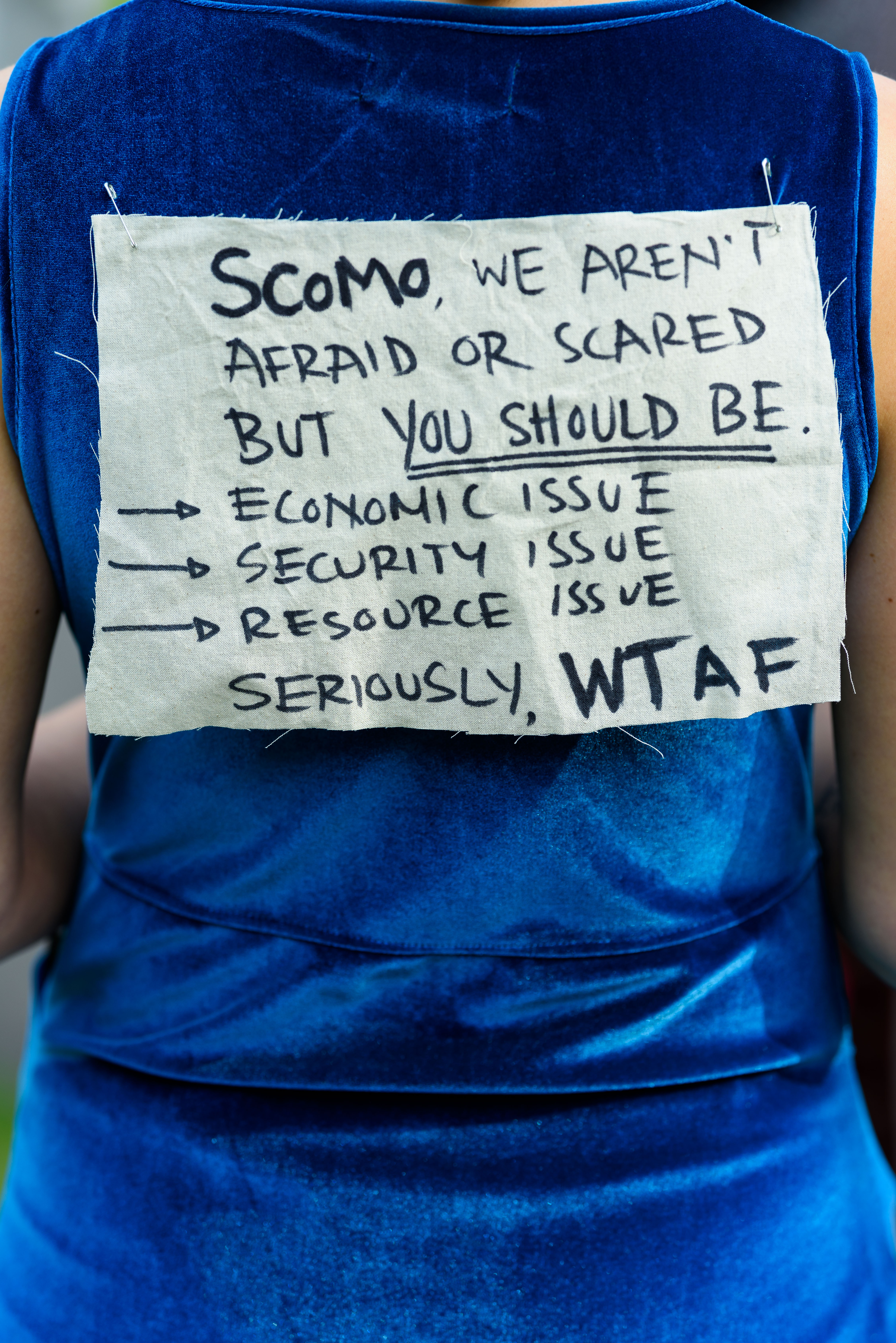 JM1_50001 06-12-19 XR Melbourne